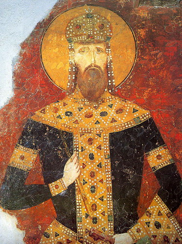 The fresco of king Milutin, Bogorodica Ljeviška (Our Lady of Ljevish), Kosovo and Metohia, Serbia